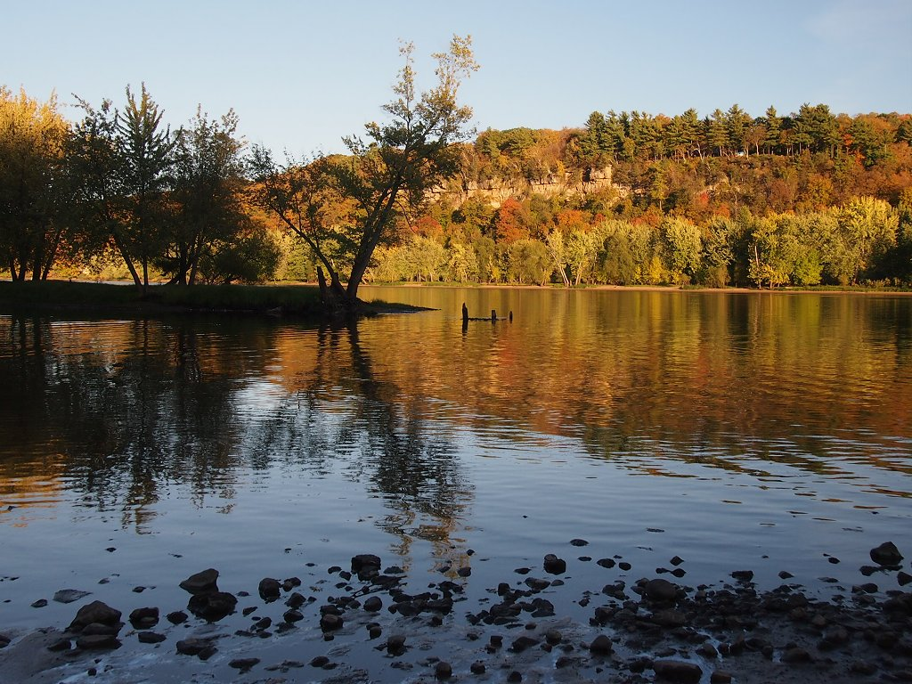 St. Croix Boom Site & St. Croix Islands State Recreation Area, Stillwater, Minnesota, USA